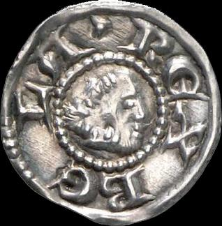 Bracteate (Hungary) Béla III or IV of Hungary (Cat. No.: Huszár 200)